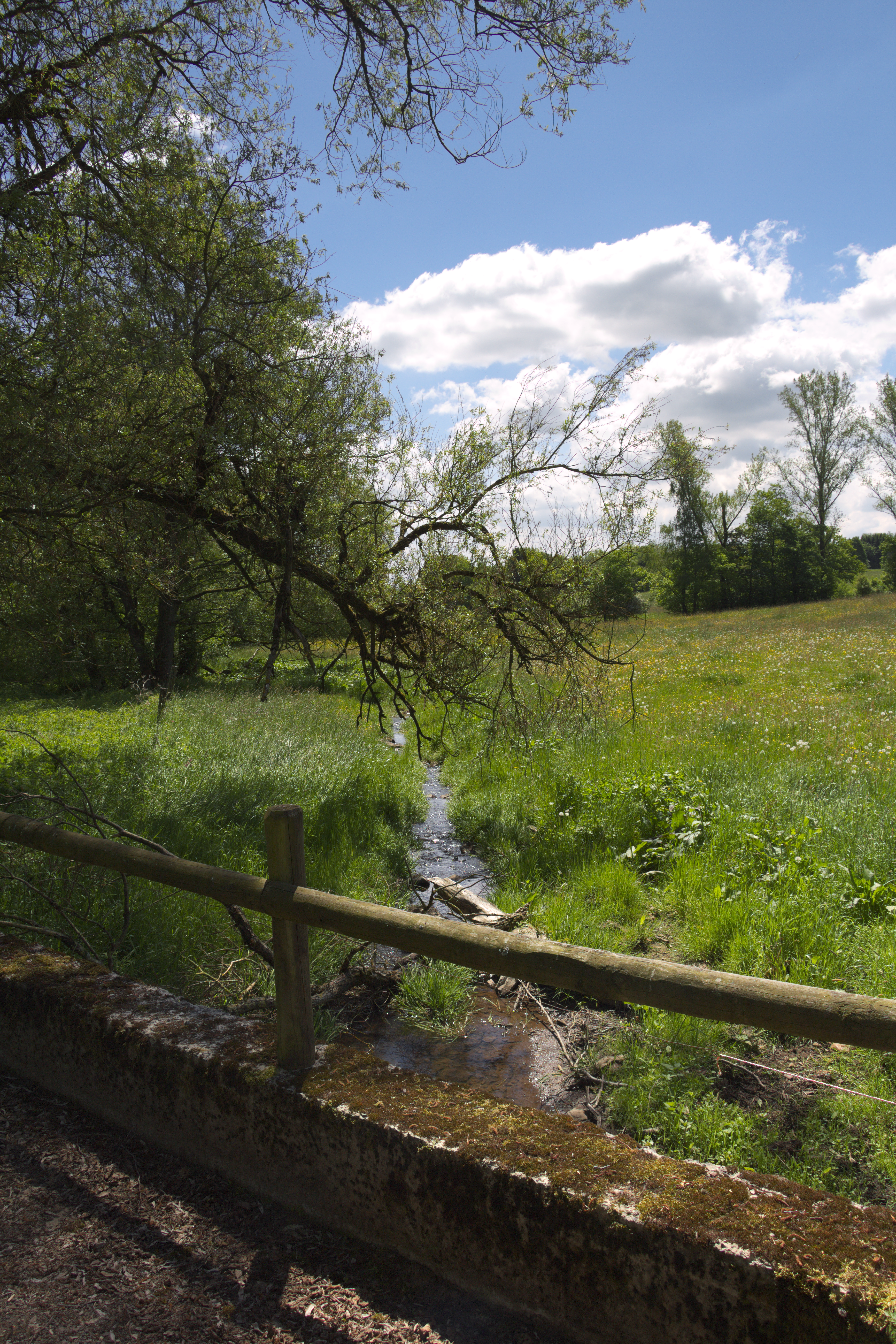 Landscape Protection Area "Auenverbund Kinzig" (Hundsbach), north Volkartshain, Grebenhain, Hesse, Germany